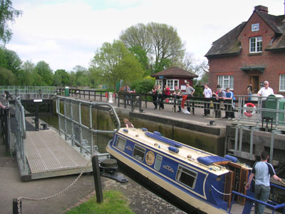 Photograph of Abingdon Lock on the River Thames, England, taken by Sean Kisby on 30th April 2005.